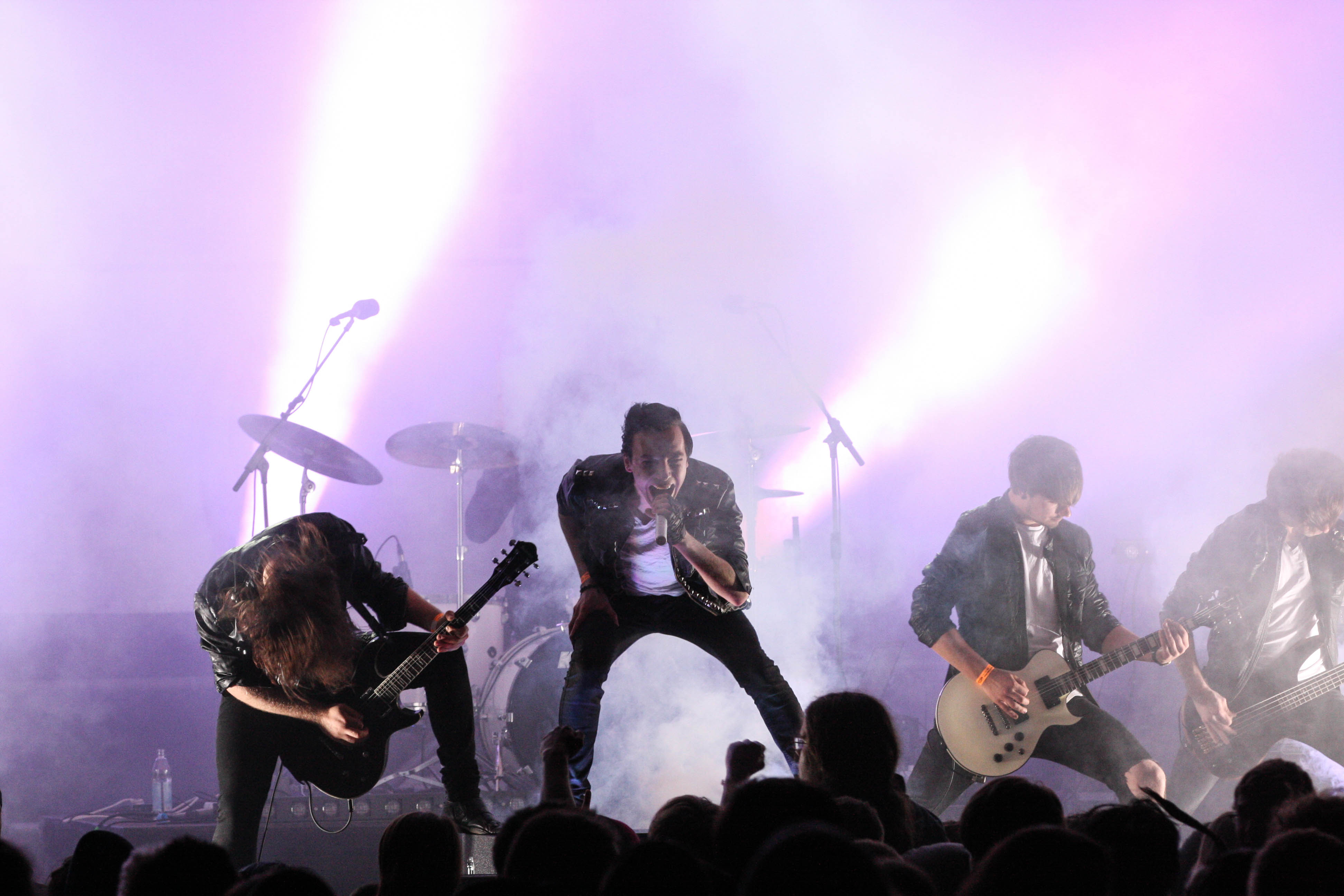 Festivalsommer This photo was created with the support of donations to Wikimedia Deutschland in the context of the CPB project "Festival Summer".